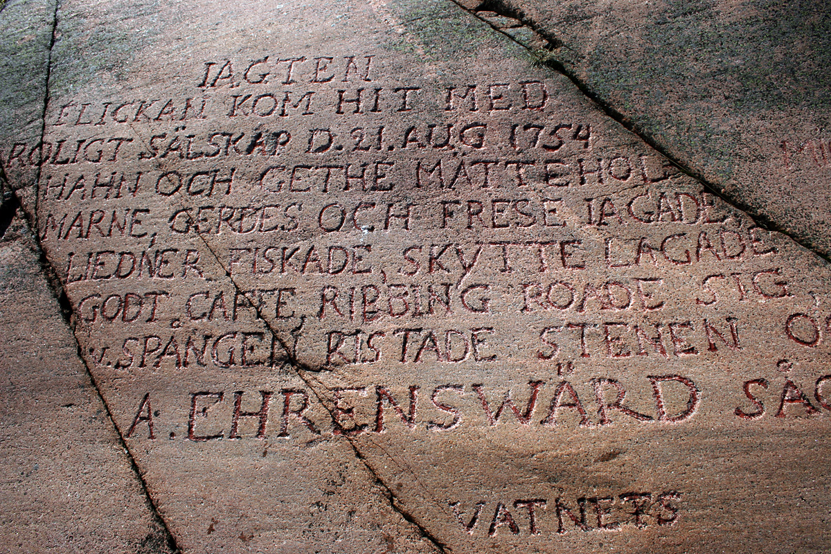 Ehrenvärd's writings on Hauensuoli rocks.